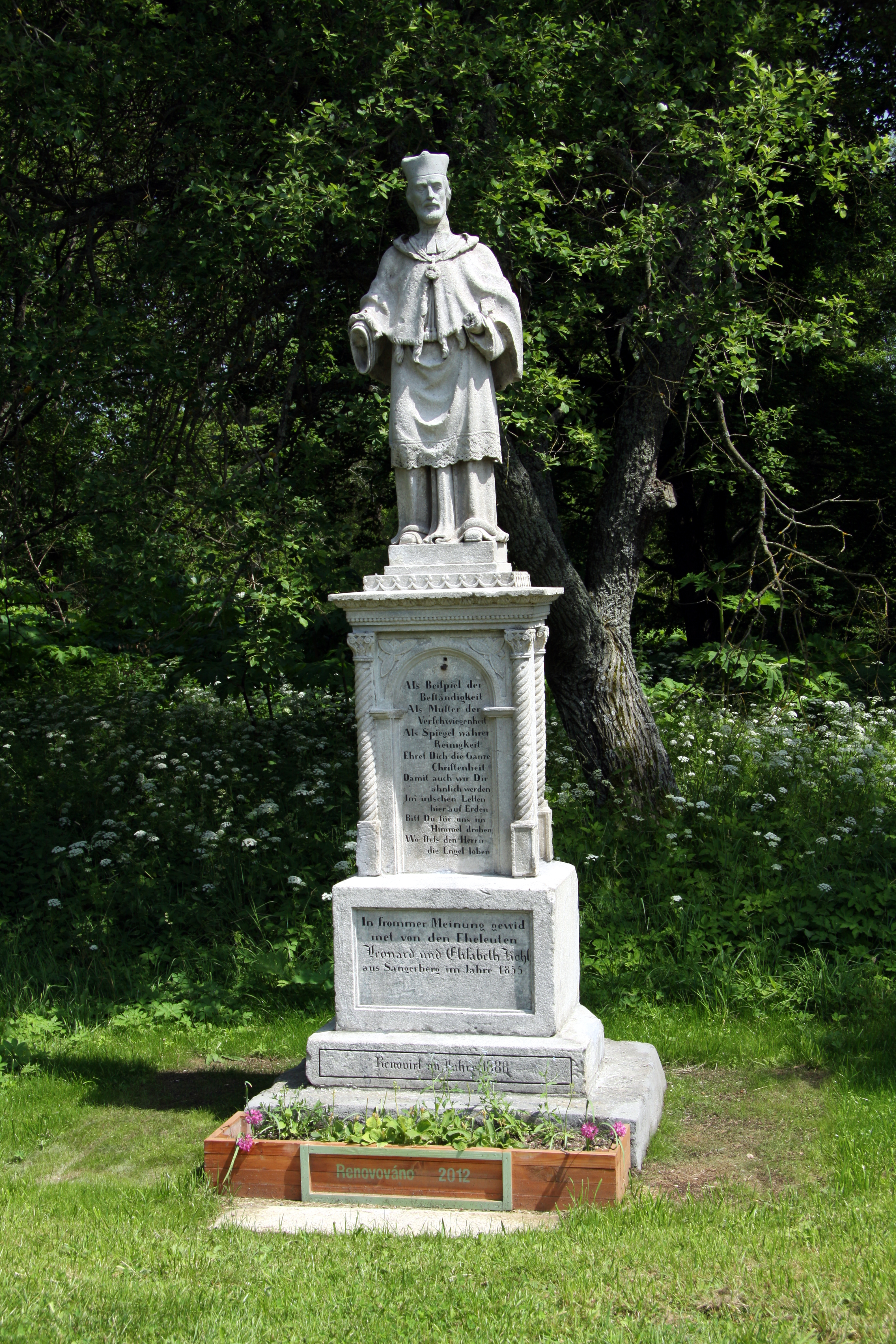 Statue of John of Nepomuk in Prameny village in Cheb District, Czech Republic